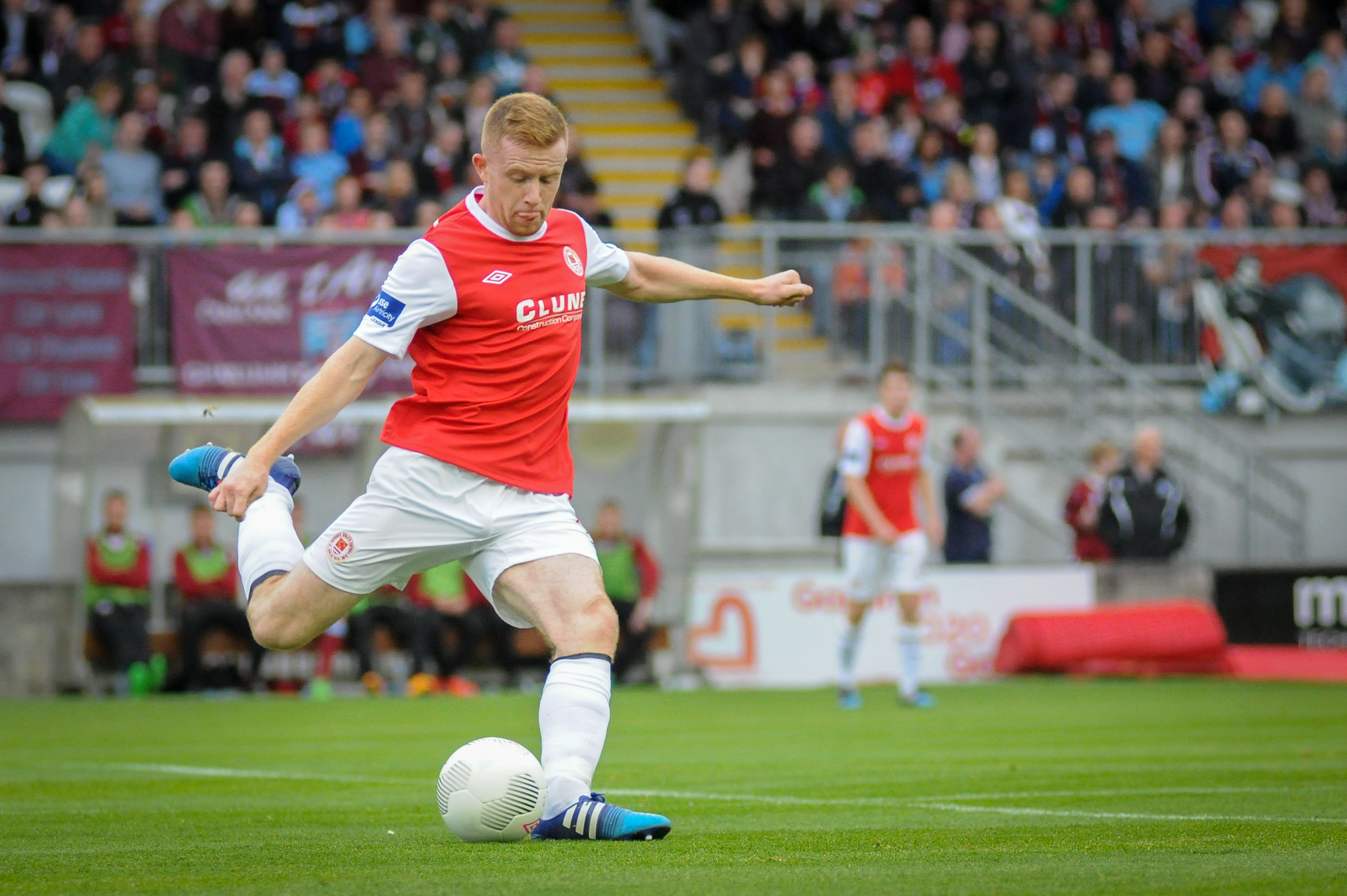 Sean Hoare in action for St. Patrick's Atheltic in the 2015 EA Sports Cup Final at Eamonn Deacy Park, Galway